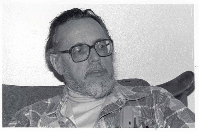 Second photograph of John Howard Yoder by Carolyn Prieb.